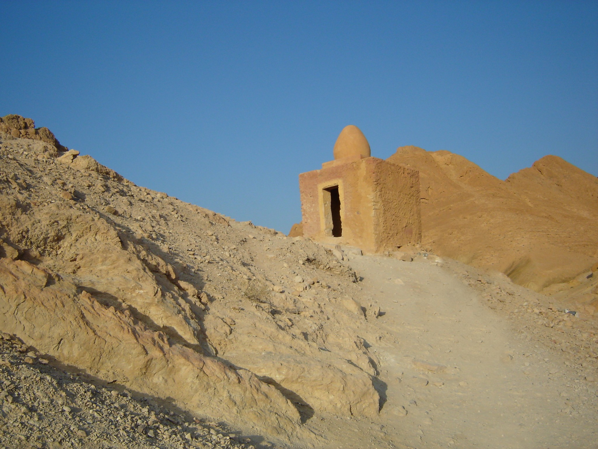 Grave of a Marabout, Chebika, Tunisia Source: Self-made, October 2004 Author: BishkekRocks